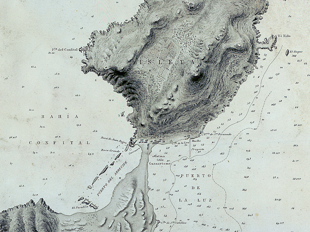 Confital Bay, La Isleta, Guanarteme isthmus, "La Luz" Port, "Santa Catalina" & "La Luz" Castles in Las Palmas de Gran Canaria (Canary Islands, Spain). Map of 1879.